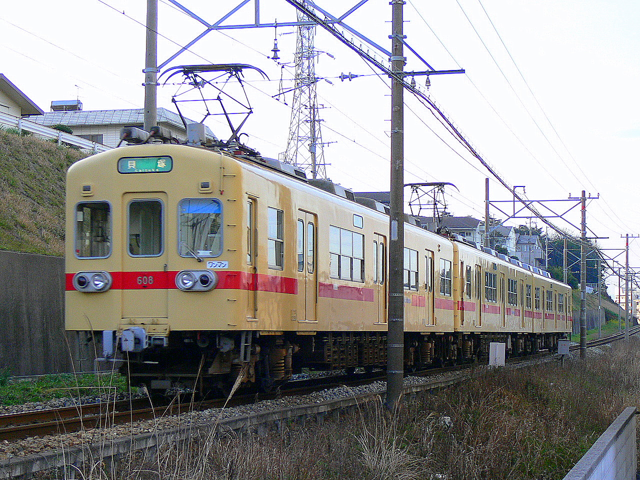 Nishi-Nippon-Railroad Type 600 Train (Japan).